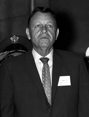 Governor of Louisiana, James “Jimmie” Davis in New Orleans [Photograph by Harold Sellers] 4 May 1962